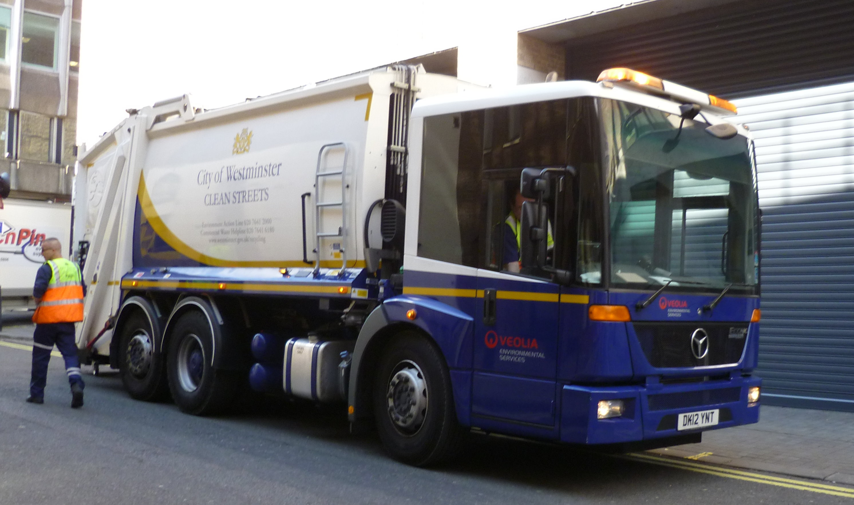 City of Westminster Veolia refuse lorry 10 Jun 2015 central London.